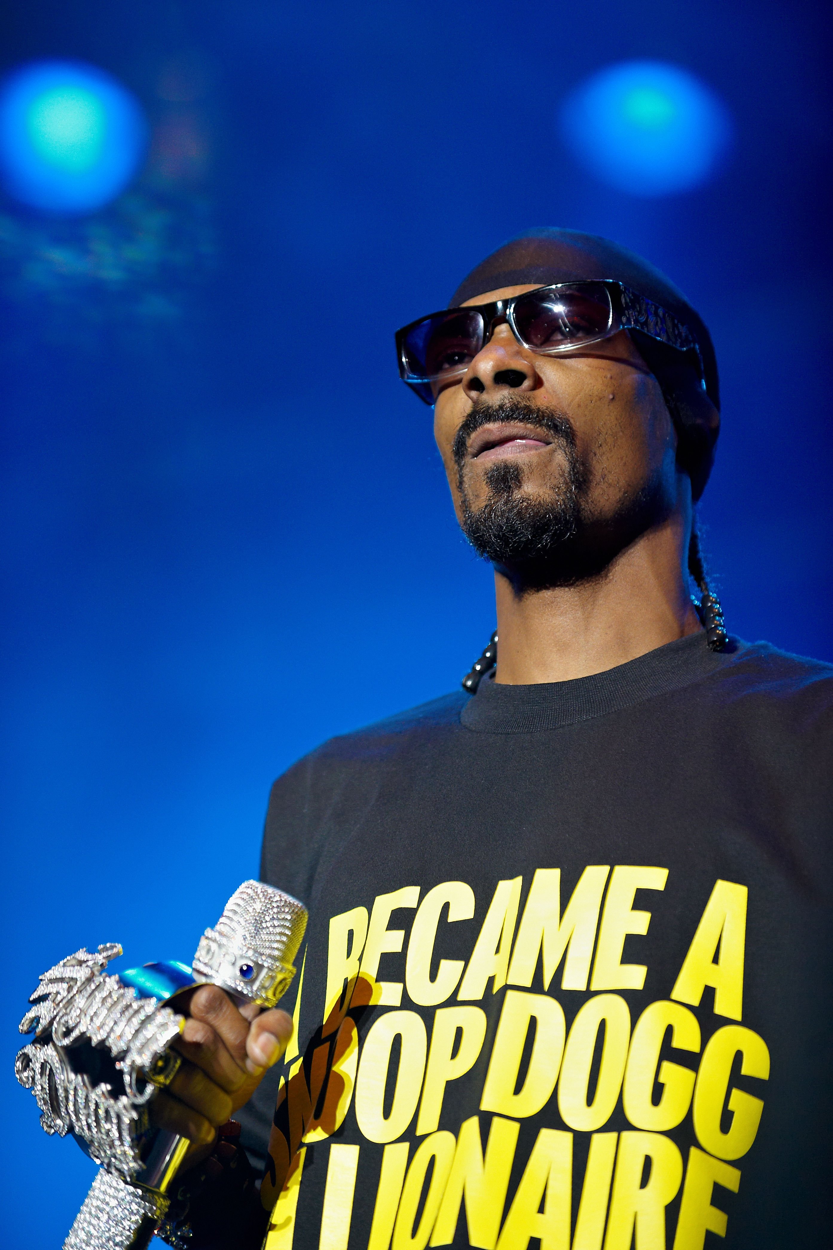 8 further pictures can be found here